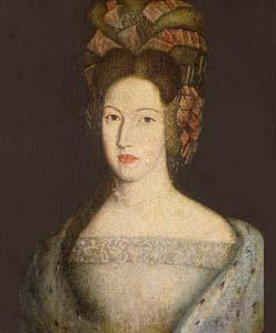 Portrait of Maria Sofia of the Palatinate (1666-1699)